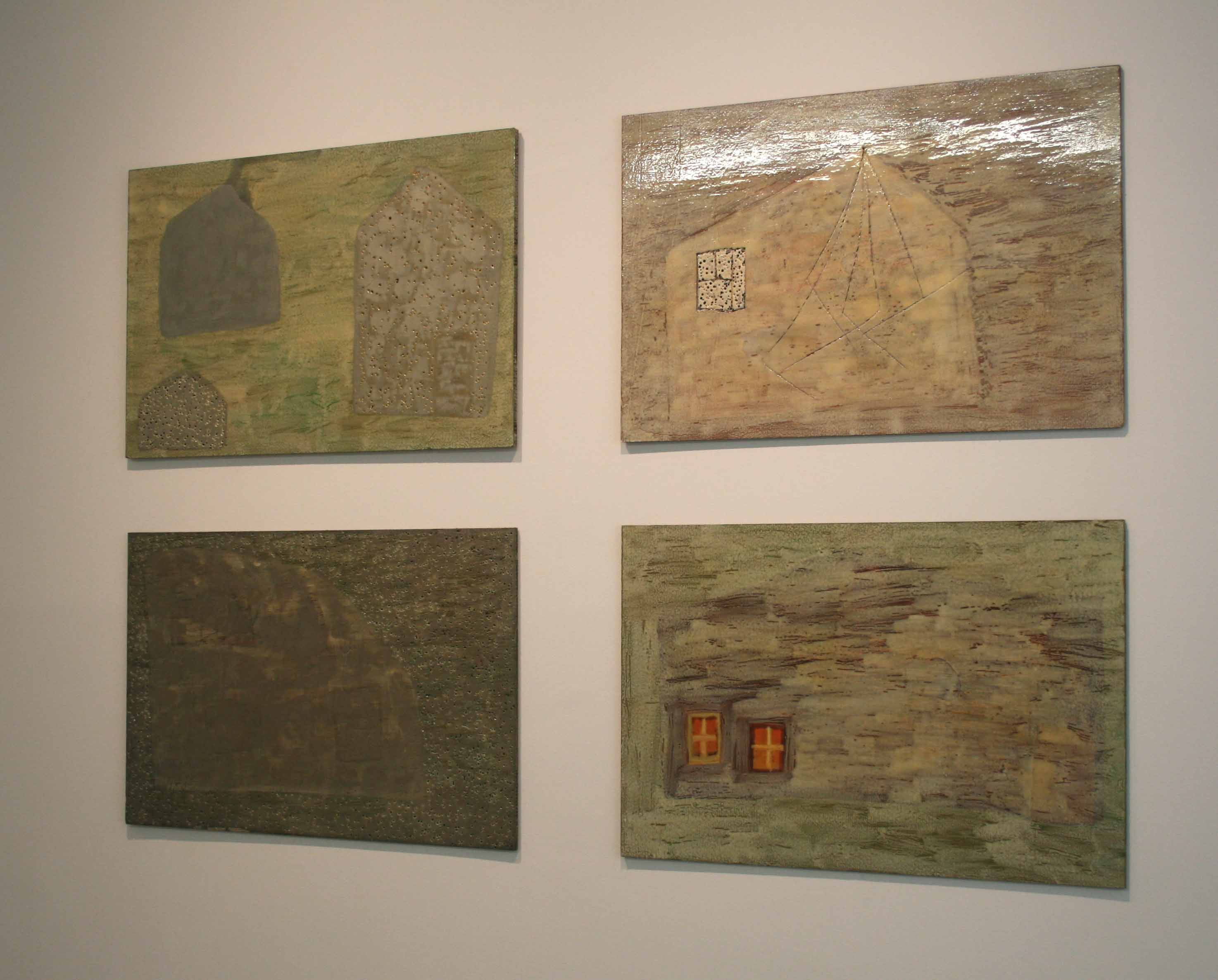 Detalle de la serie Domnus Omnia expuesta en la galería SCQ en Santiago de Compostela